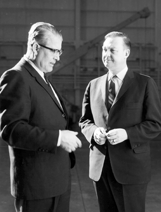 Wernher von Braun talking with U.S. Representative Armistead Selden of Alabama